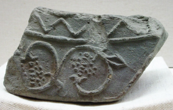 Tokyo National Museum. Personal photograph, 2004.